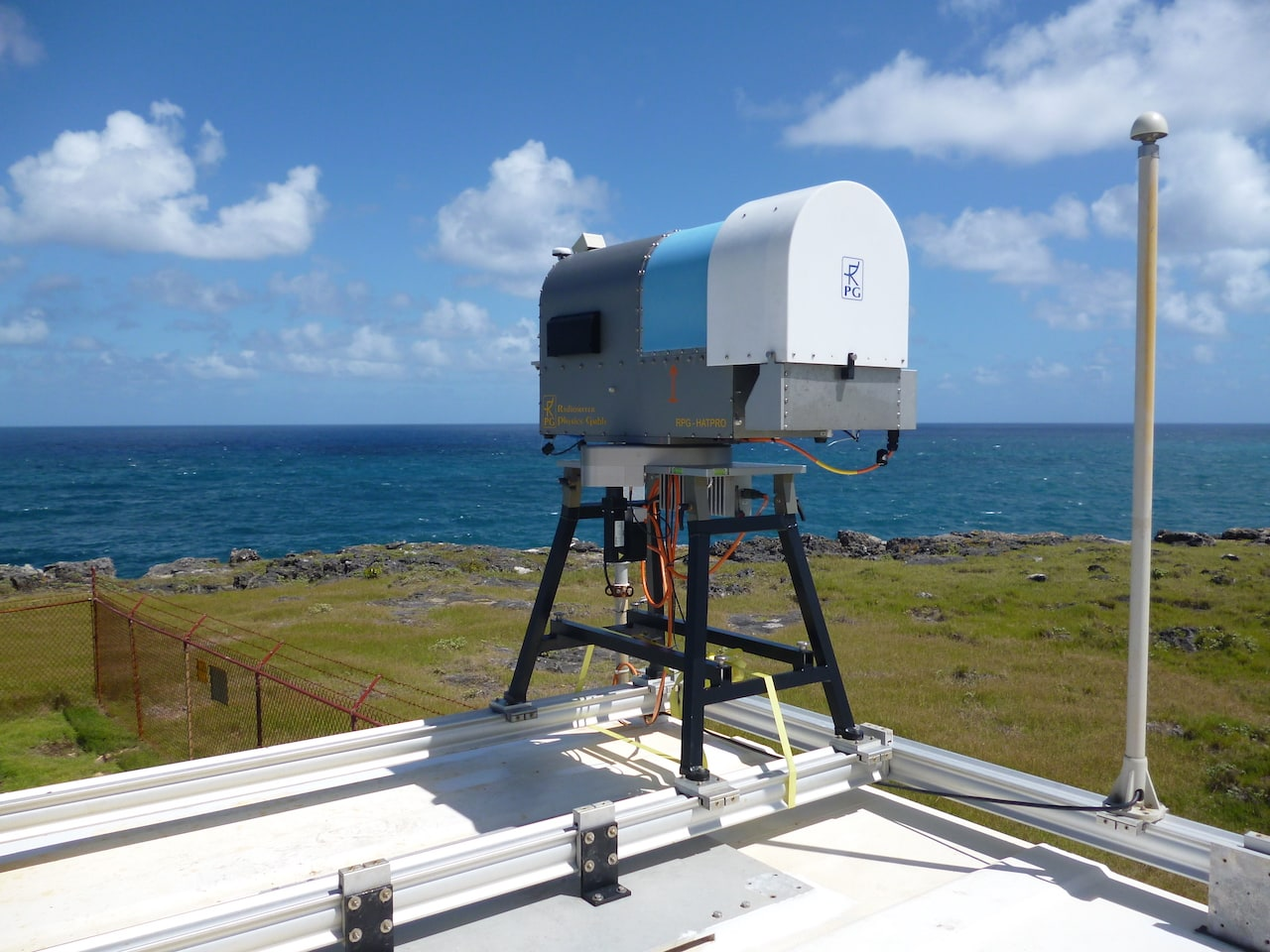 Humidity and Temperature profiling radiometer at the Barbados Clouds Observatory